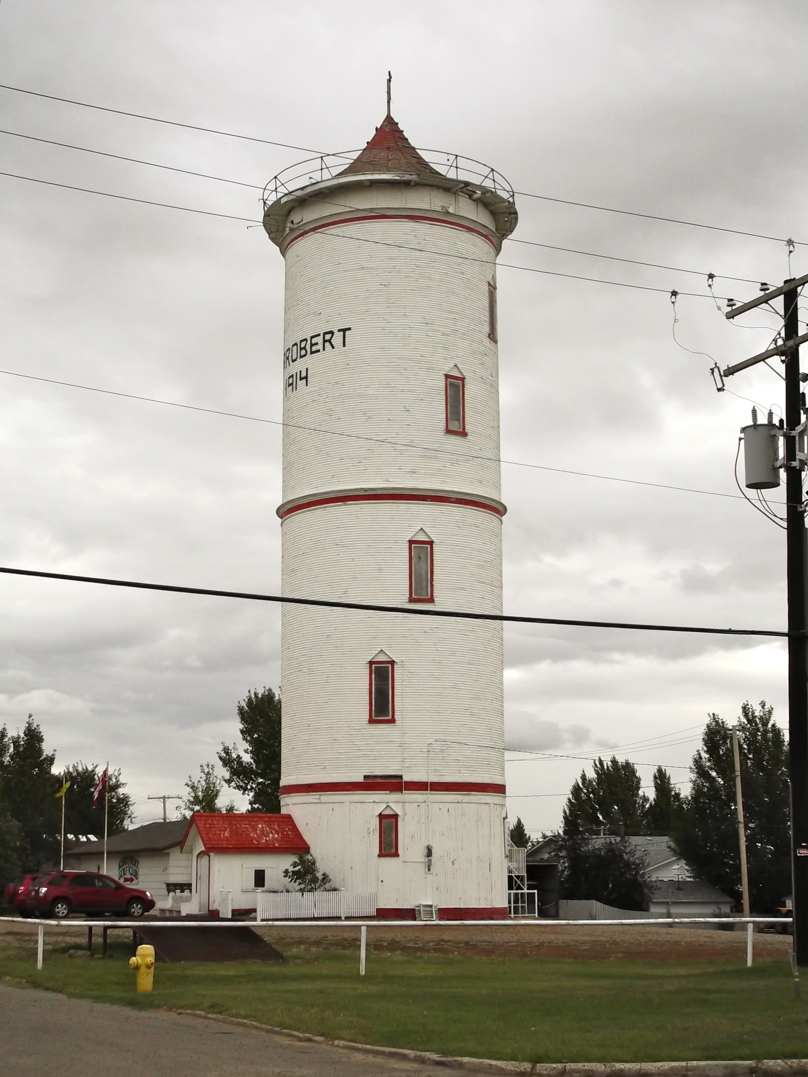 The old water tower on the south side of Kerrobert, SK.